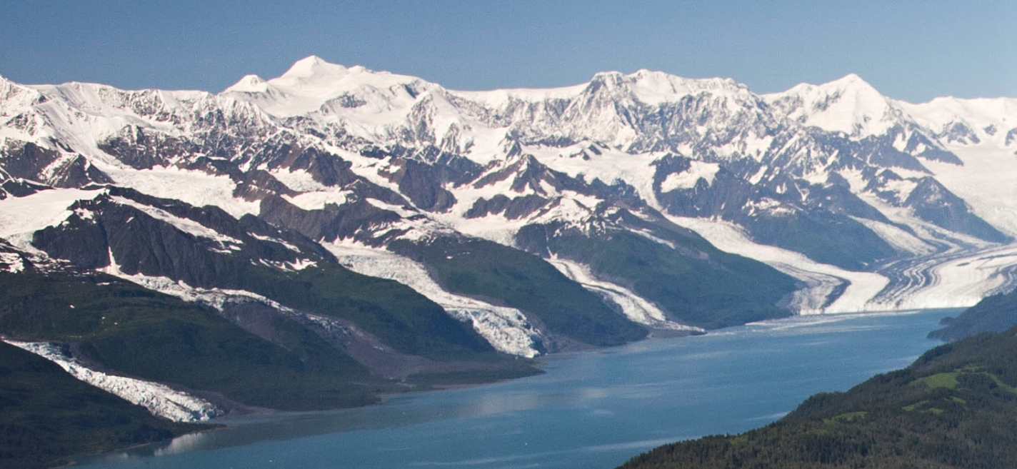 Aerial of Mount Marcus Baker and College Fiord, Prince William Sound, Chugach National Forest, Alaska.